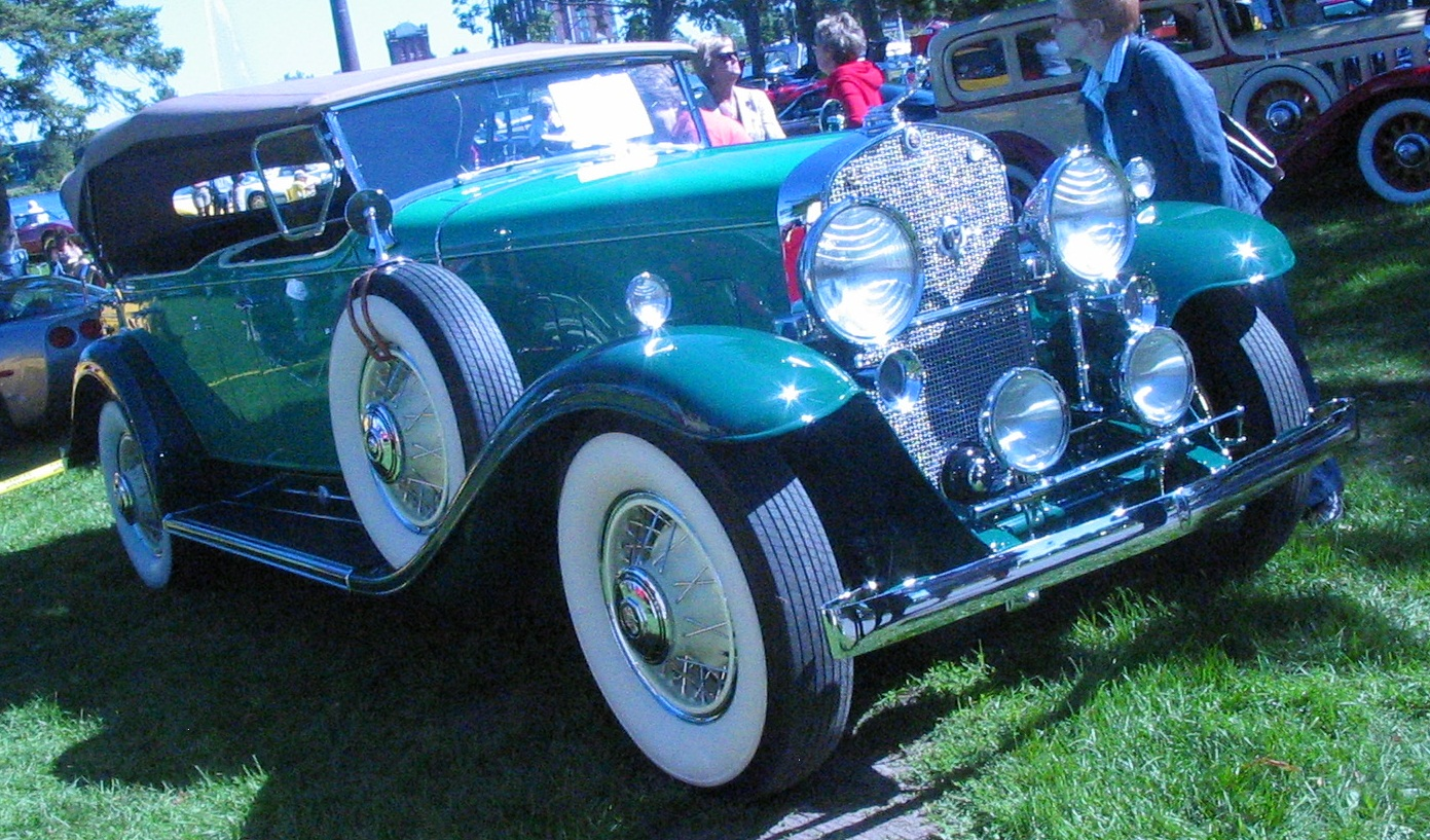 1931 Cadillac Phaeton photographed in Salaberry-De-Valleyfield, Quebec, Canada at Auto antique Salaberry-De-Valleyfield 2011.